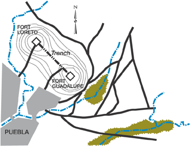 Map of the Puebla surroidings by the time of the Battle of Puebla